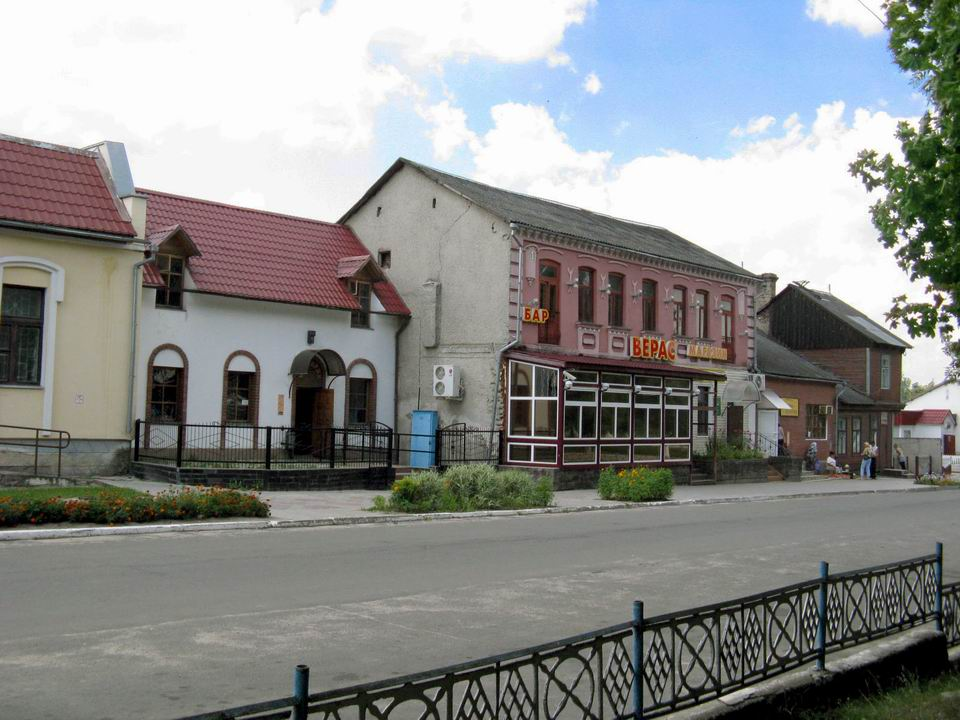 And here we are again in the heart of the High. There remained an ordinary building late XIX - early XX centuries., In buildings which, like many decades ago, there are various shops, catering establishments and companies that provide services